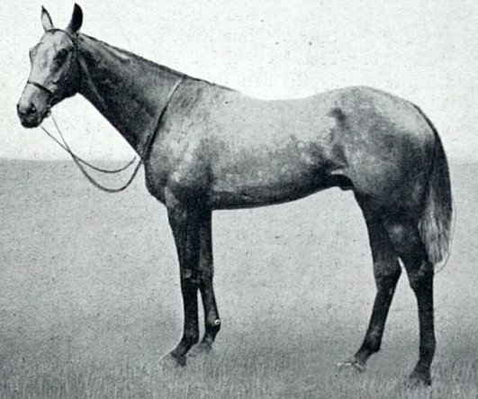 Caligula, winner of the 1920 St. Leger Stakes.